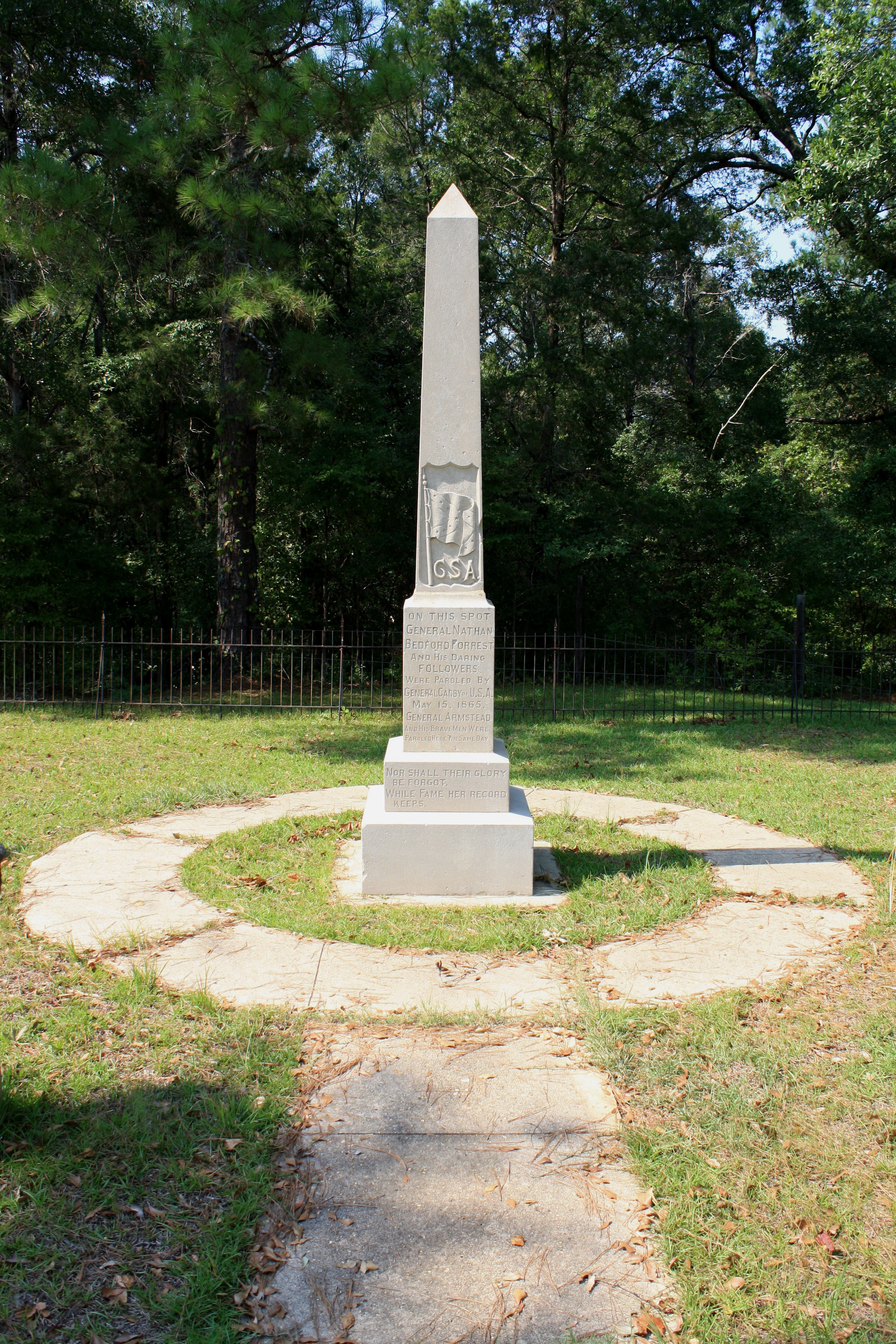 Monument in Gainesville Park.